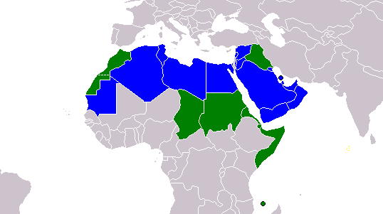 Arabic as official language (blue) or co-official (green)